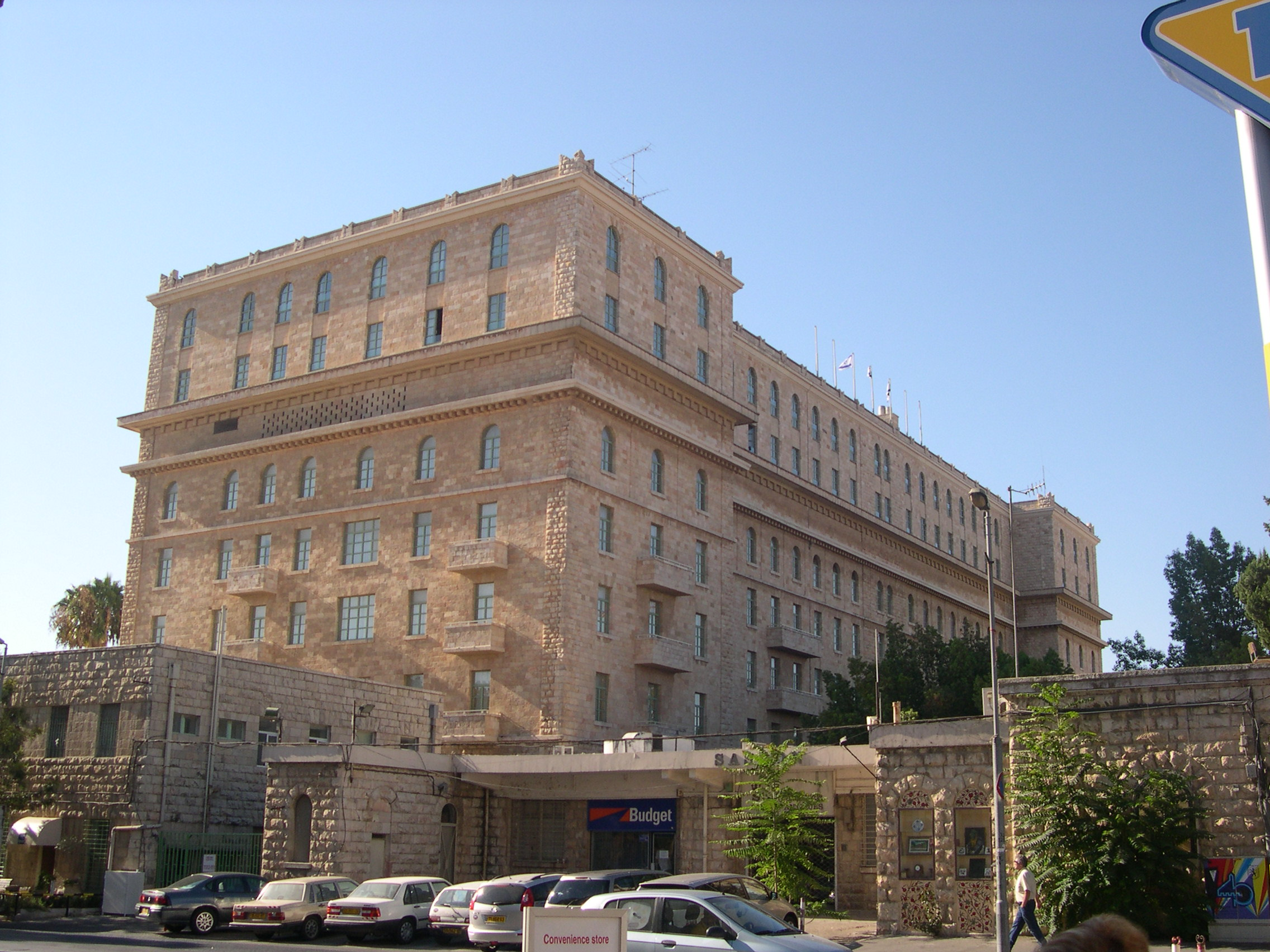 the big hulking historic hotel.